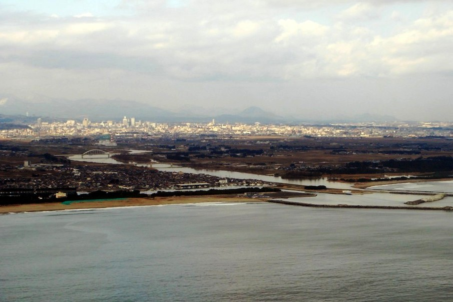 Natori-gawa River flowing to the Pacific ocean. The city of Sendai lies in the background.